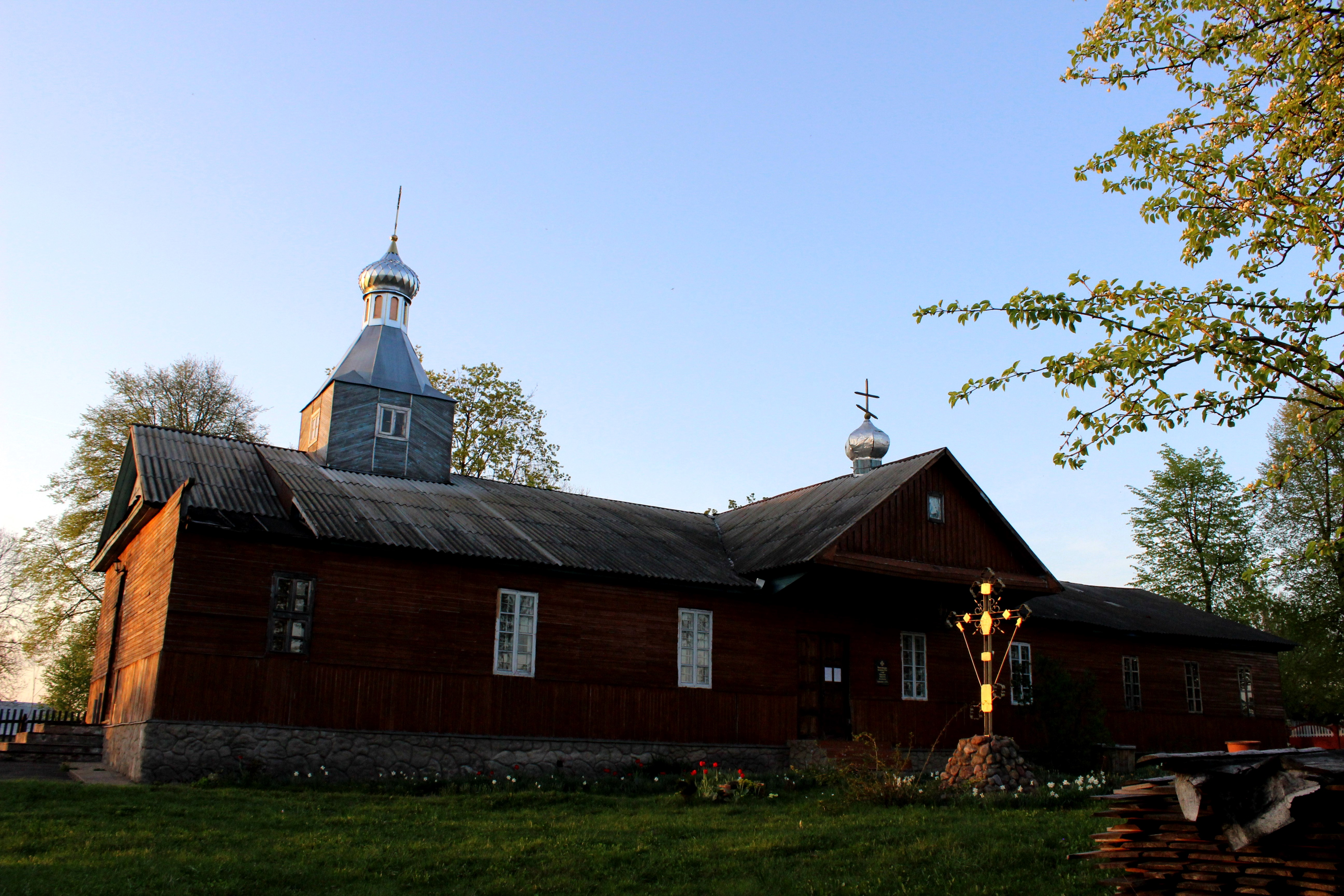 Church of the Nativity of the Virgin Mary in Pukhavichy, Minsk province